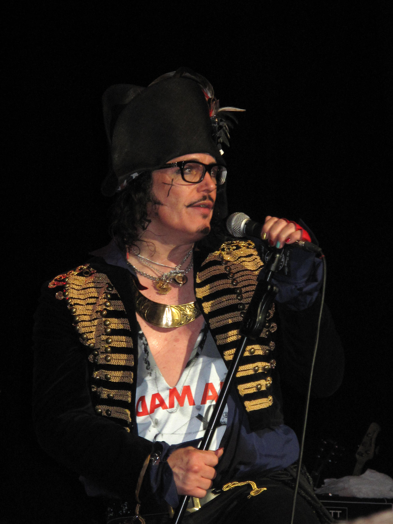 Adam Ant at G-Live, Guildford 06.12.11